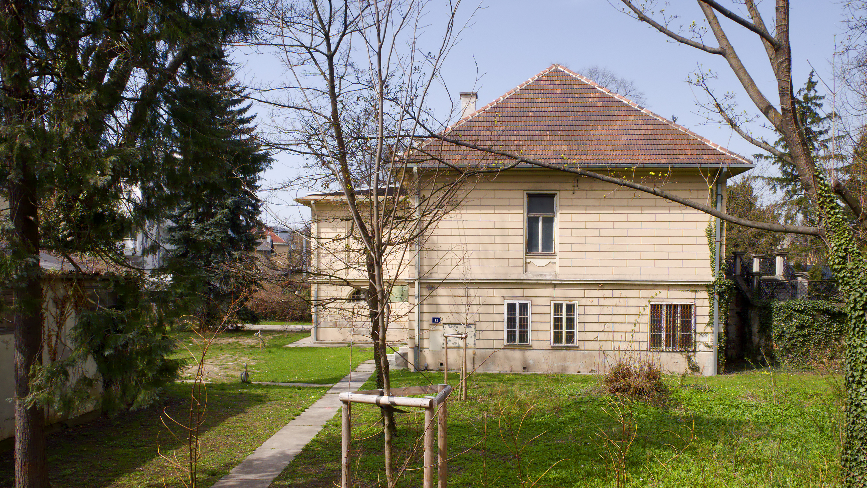 Klimt-Villa in Vienna Hietzing